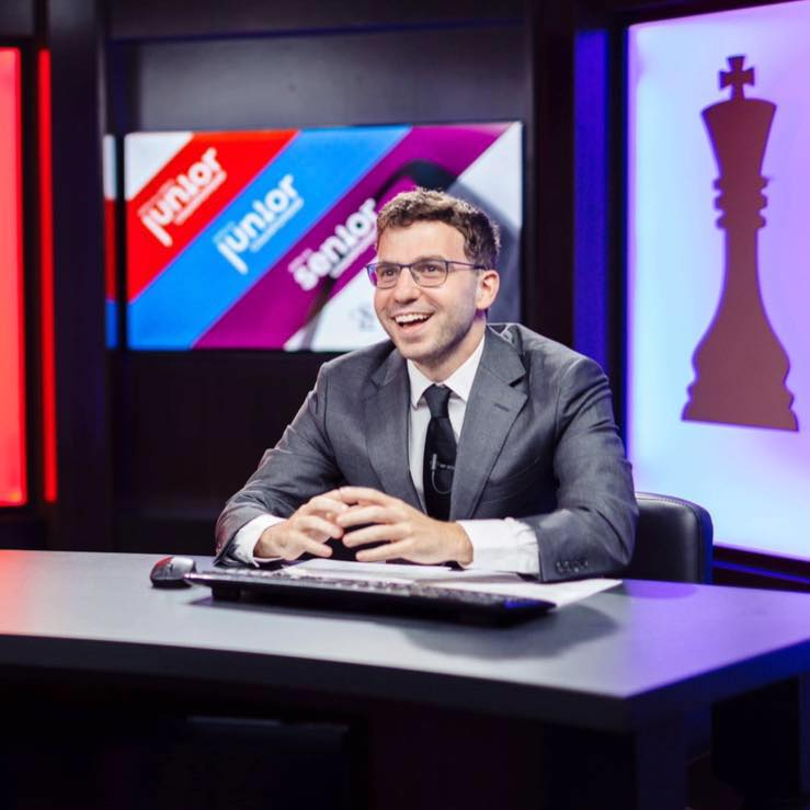 Robert Hess commentates the 2019 U.S. Junior Championships